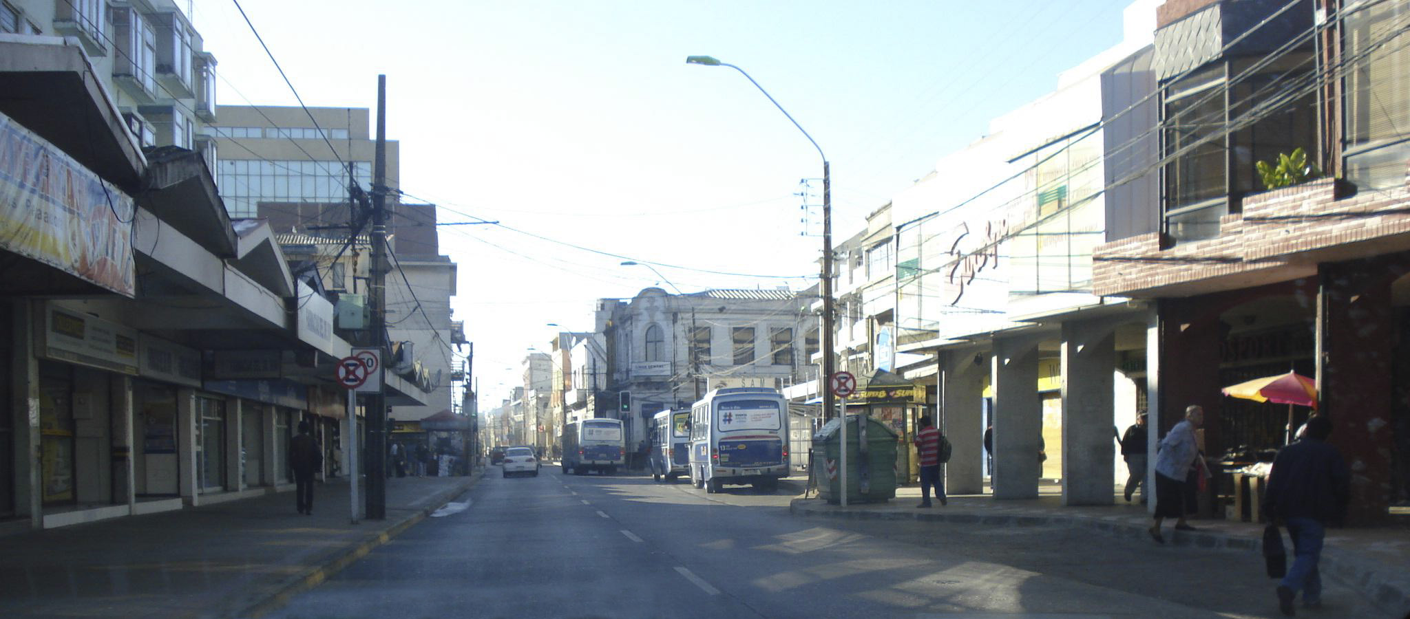 Avenue Colón, Talcahuano City